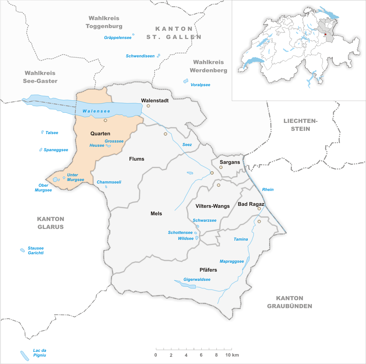 Municipality Quarten